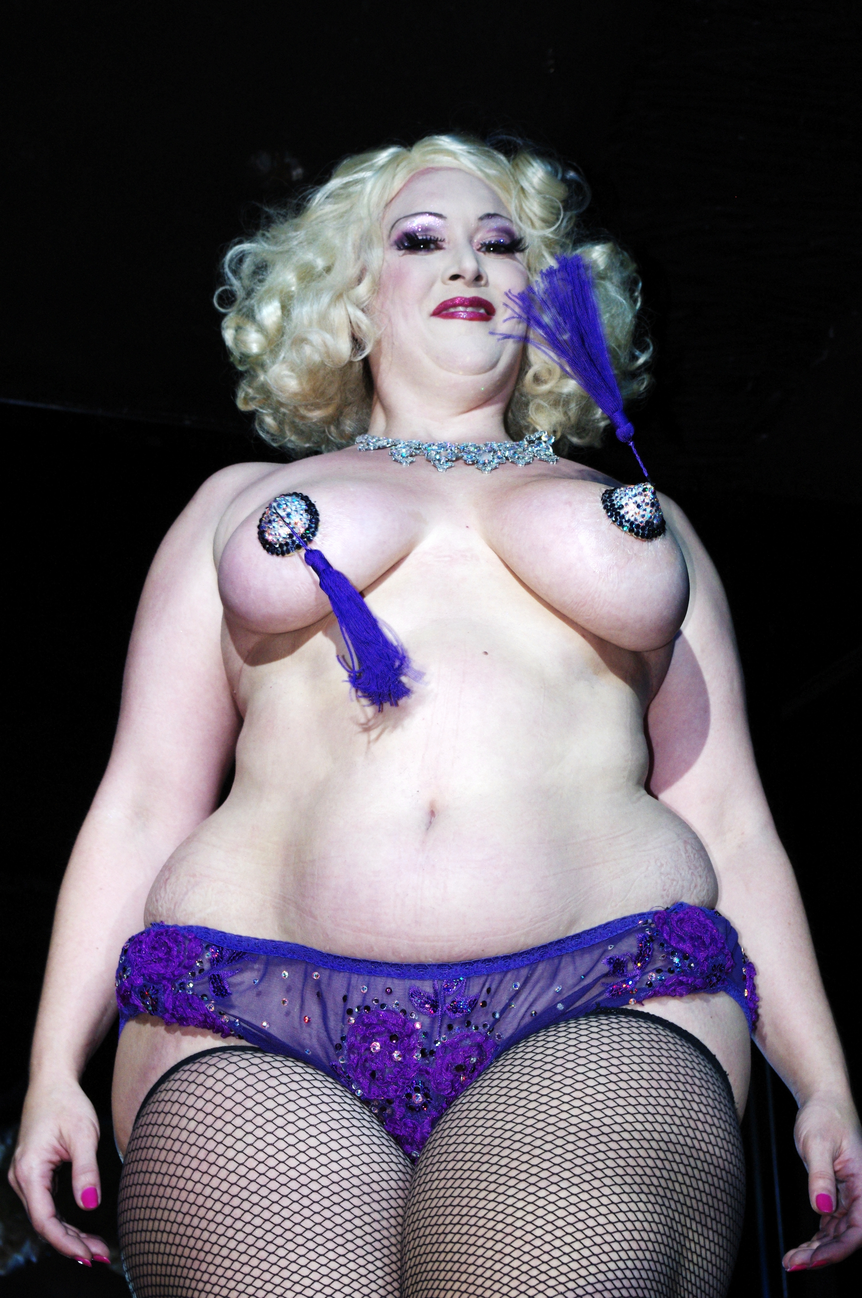 Miss Dirty Martini performing at the Copacabana in New York for the launch of Michael Musto's new book, Fork on the Left, Knife in the Back.